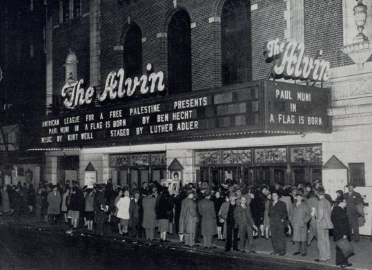 photo of the Alvin Theater in New York City